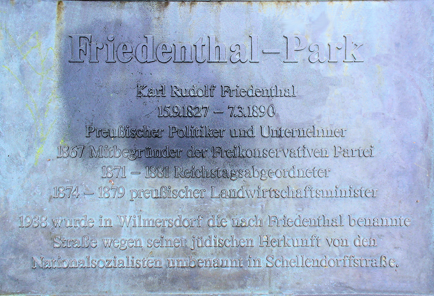 Memorial plaque, Karl Rudolf Friedenthal, Halenseestraße 17, Berlin-Grunewald, Germany Koordinate:52°29′44″N 13°17′2″E / 52.49556°N 13.28389°E